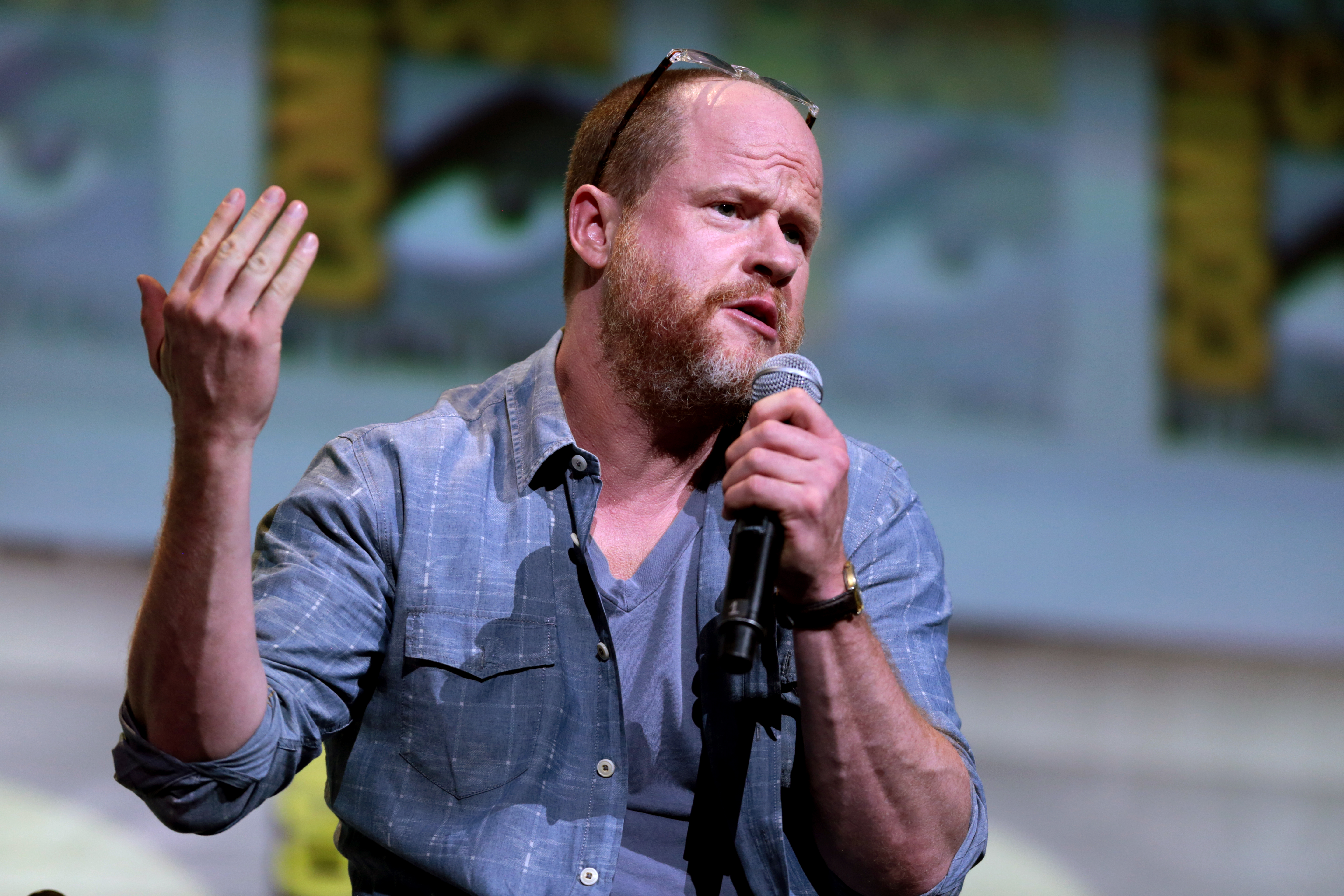 Joss Whedon speaking at the 2016 San Diego Comic Con International at the San Diego Convention Center in San Diego, California.